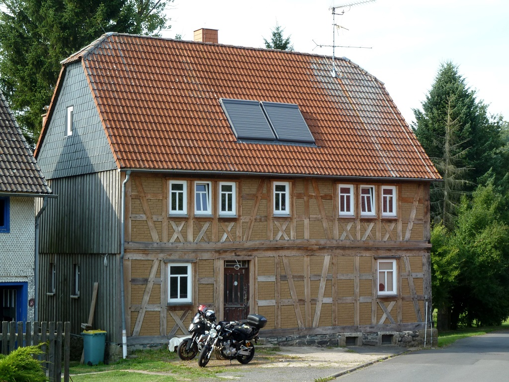 Old schoolhouse in Bannerod, a district of the community of Grebenhain in Hesse, Germany, built in 1808.